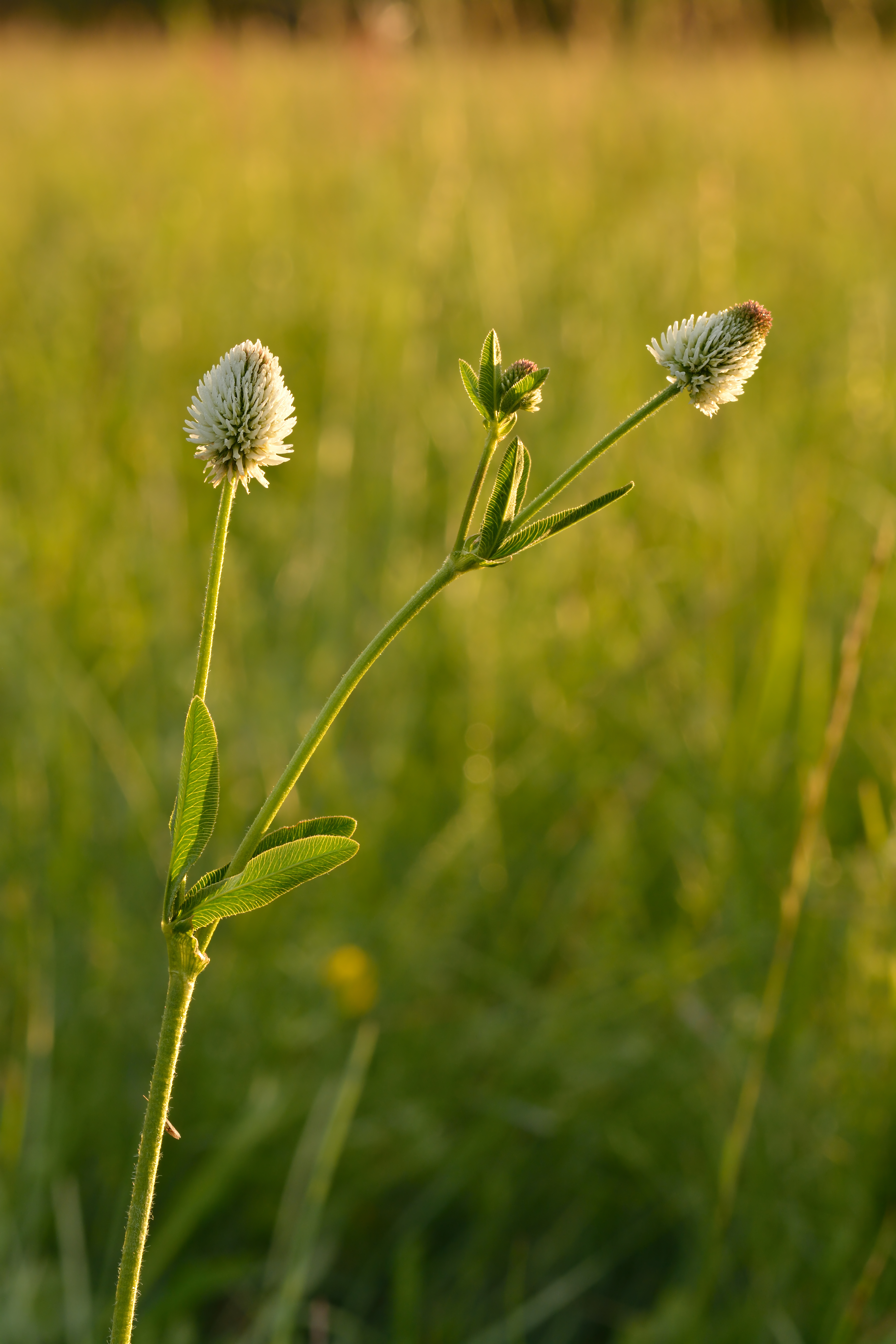 Mountain clover (Trifolium montanum). Alvar (landform) in Keila, Northwestern Estonia.